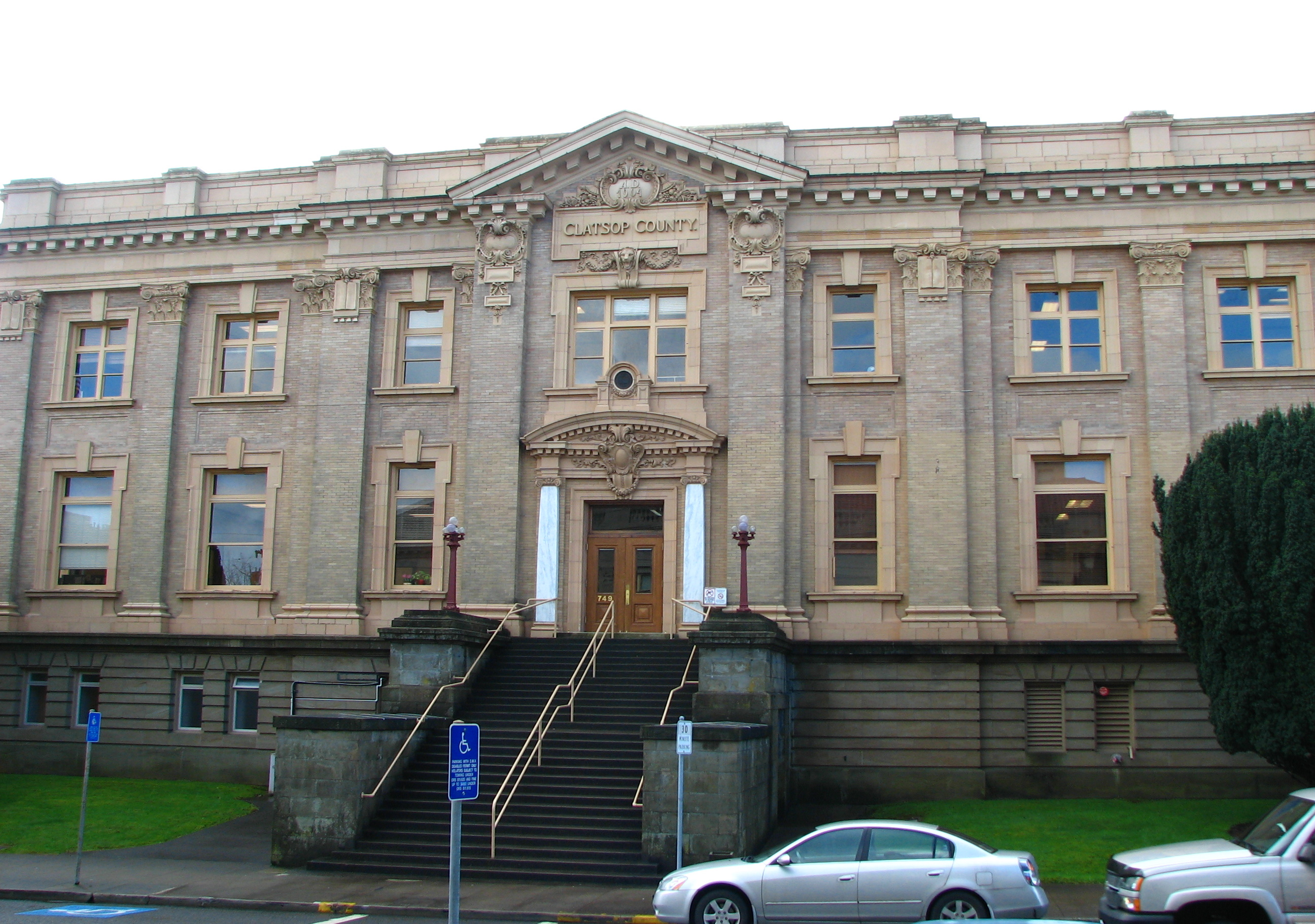 The historic Clatsop County Courthouse (built 1904), located at 749 Commercial Street in Astoria, Oregon, United States, is listed on the US National Register of Historic Places (NRHP).